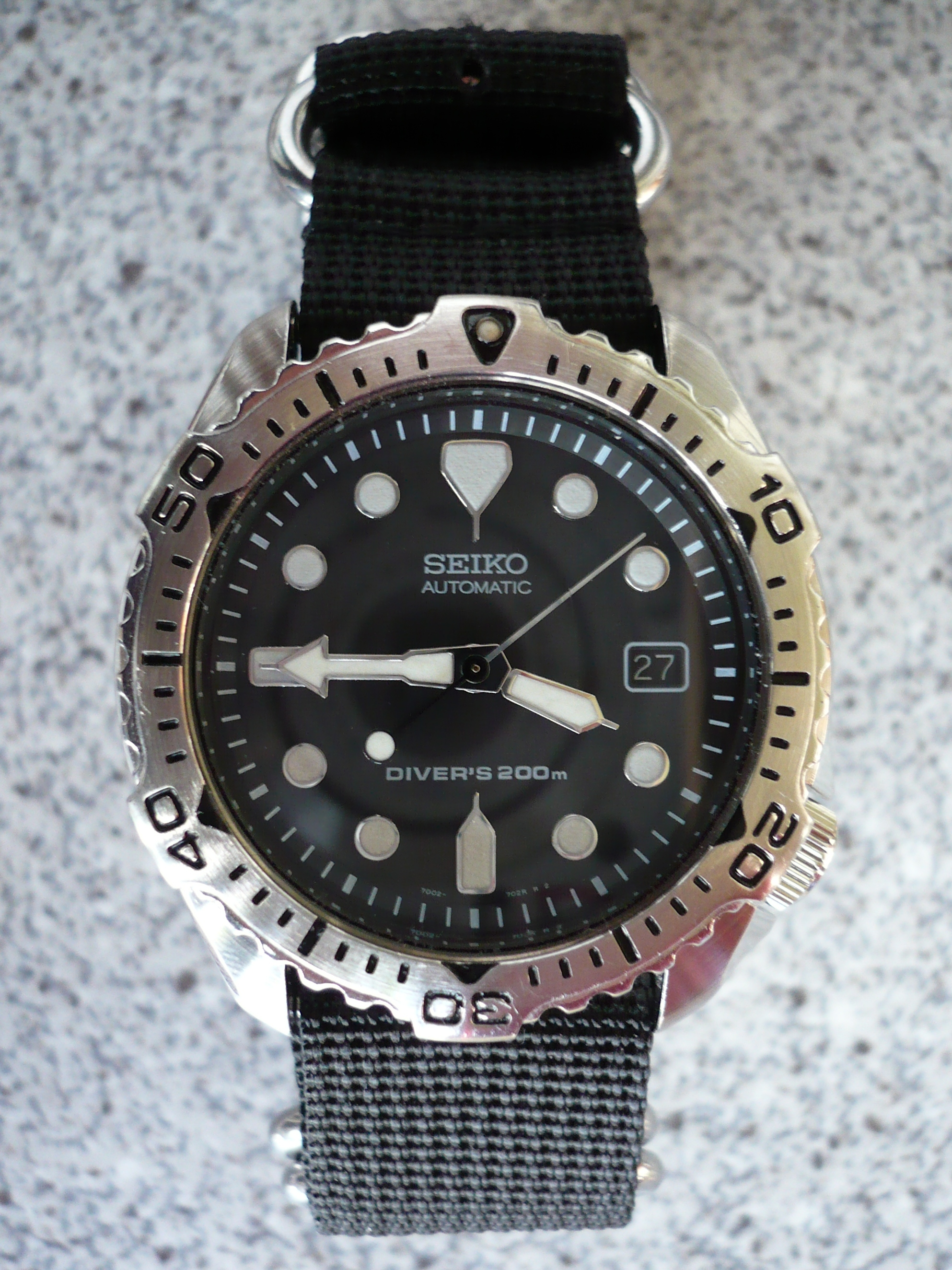 Seiko 7002-7020 Diver's 200 m (tool watch suitable for scuba diving) on a 4-ring NATO style aftermarket strap made of ballistic nylon.